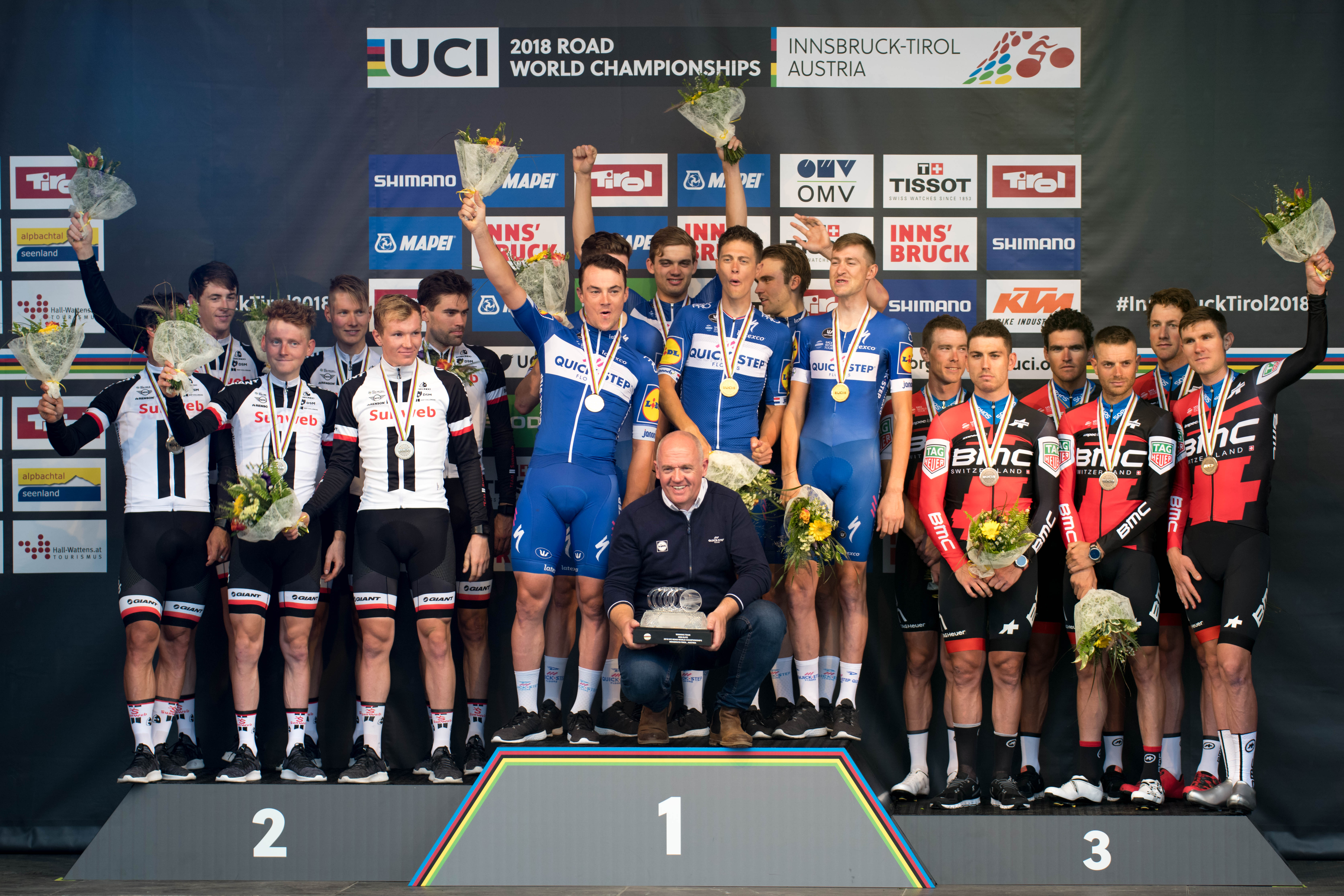 2018 UCI Road World Championships Innsbruck/Tirol Men's Team Time Trial. Picture shows: Award Ceremony Men's Team Time Trial